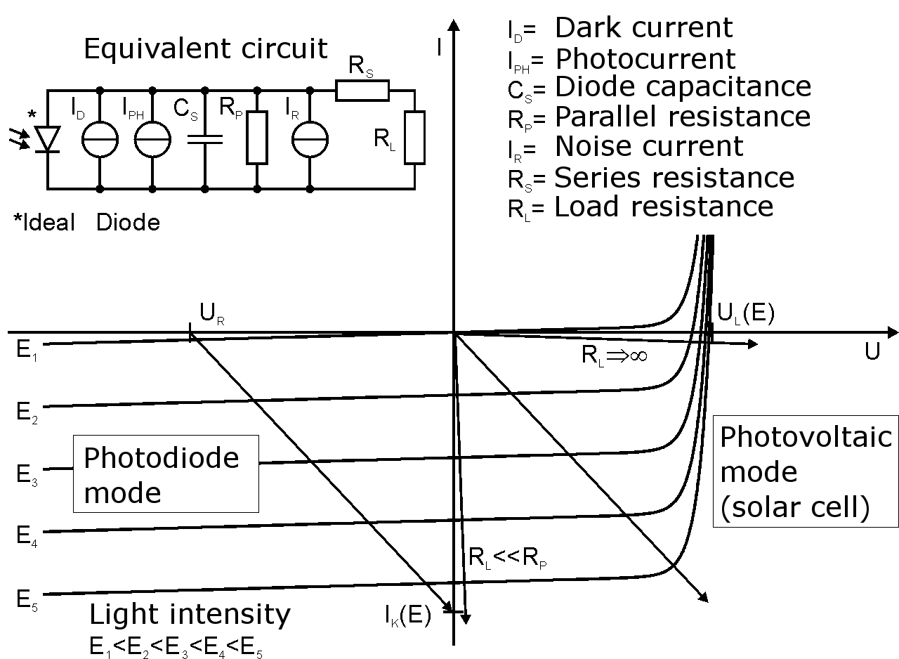 I-V curve of a photodiode and the equivalent circuit. The linear load lines represent the response of the external circuit: I=(Applied bias voltage-Diode voltage)/Total resistance. The points of intersection with the curves represent the actual current and voltage for a given bias, resistance and illumination.